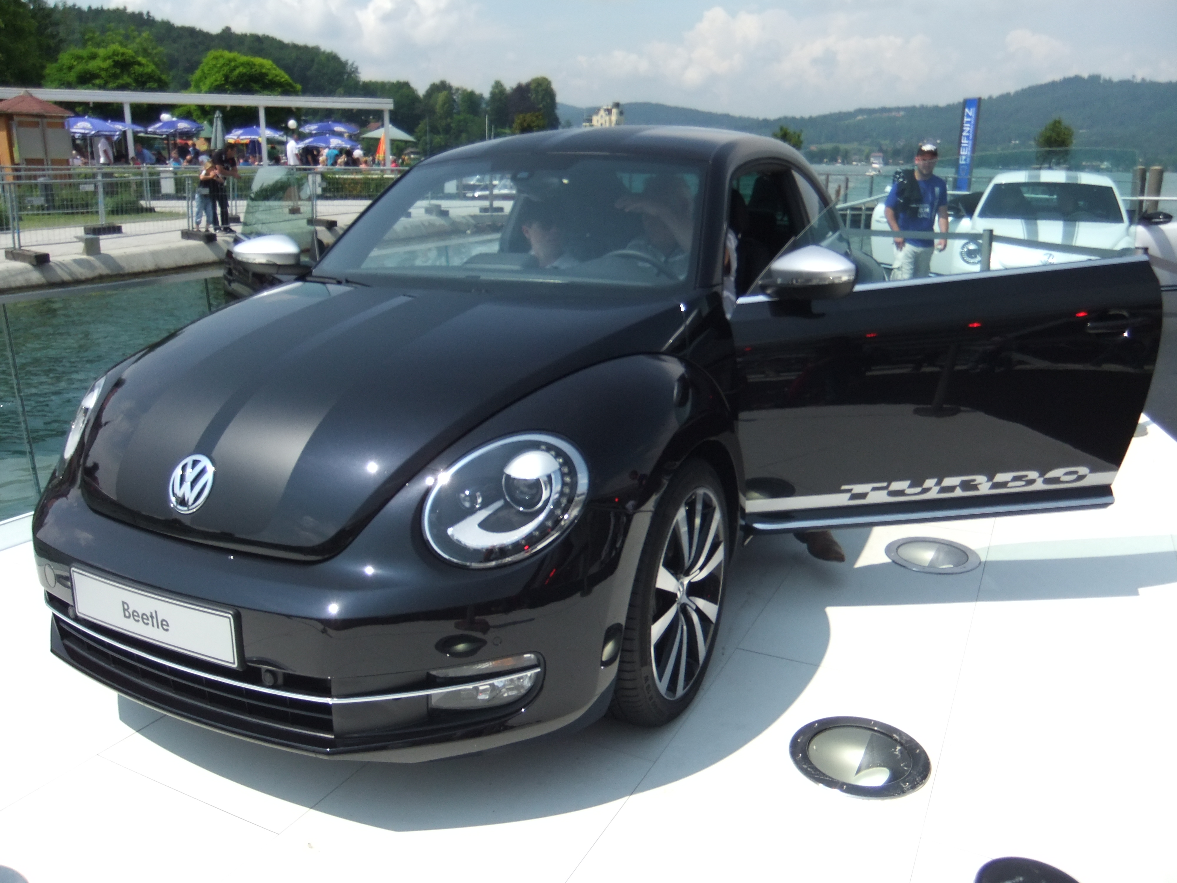 Turbo Black edition second generation water-cooled Volkswagen Beetle at the Wörtheresee Treffen car show in Reifnitz (Klagenfurt), Austria. The car had a WVW VIN, designating a German assembly.